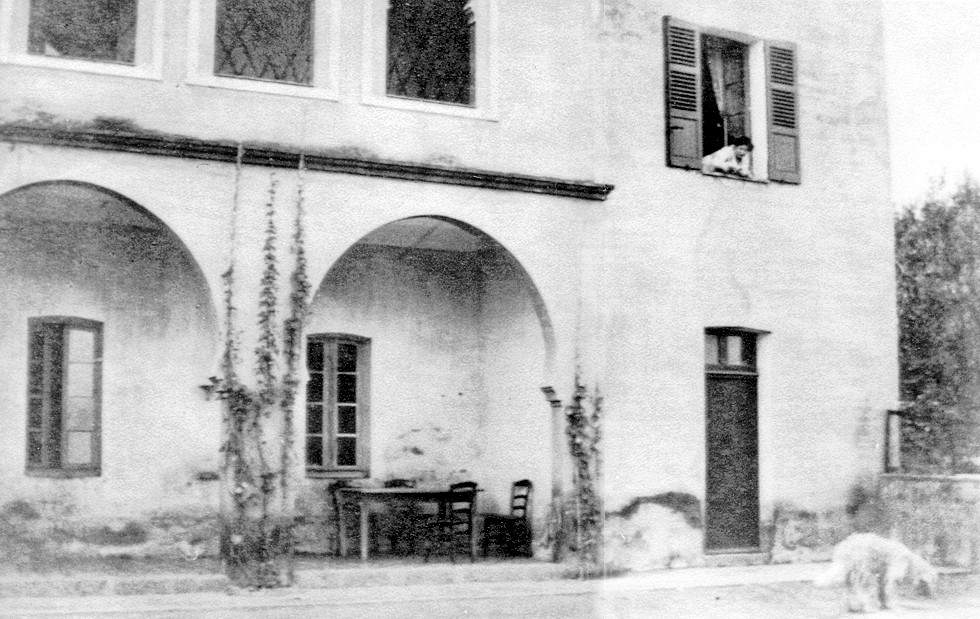 The Mother in Theon`s house at Tlemcen, Algeria (1906 - 1907)